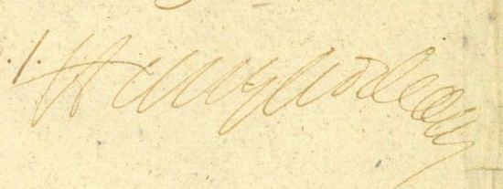 1655 signature of Henri d'Orléans, Duke of Longueville